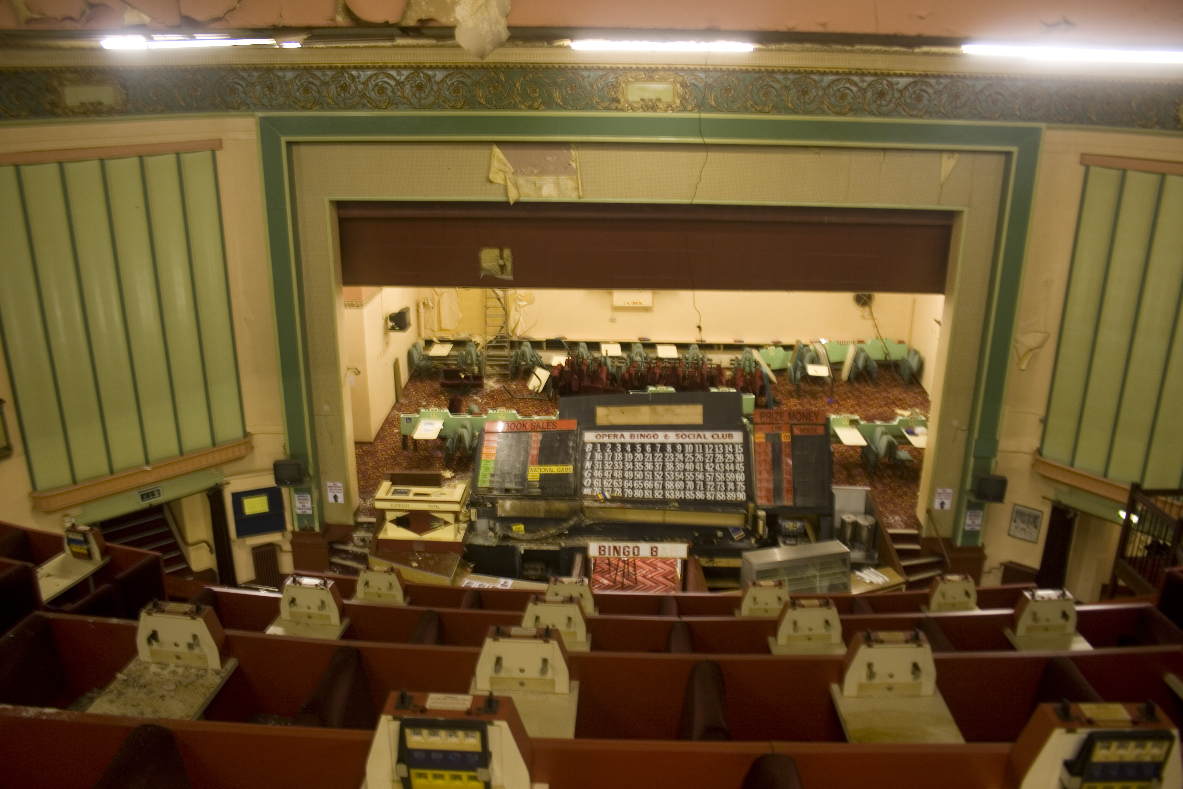 The current state of the Workington Opera House stage